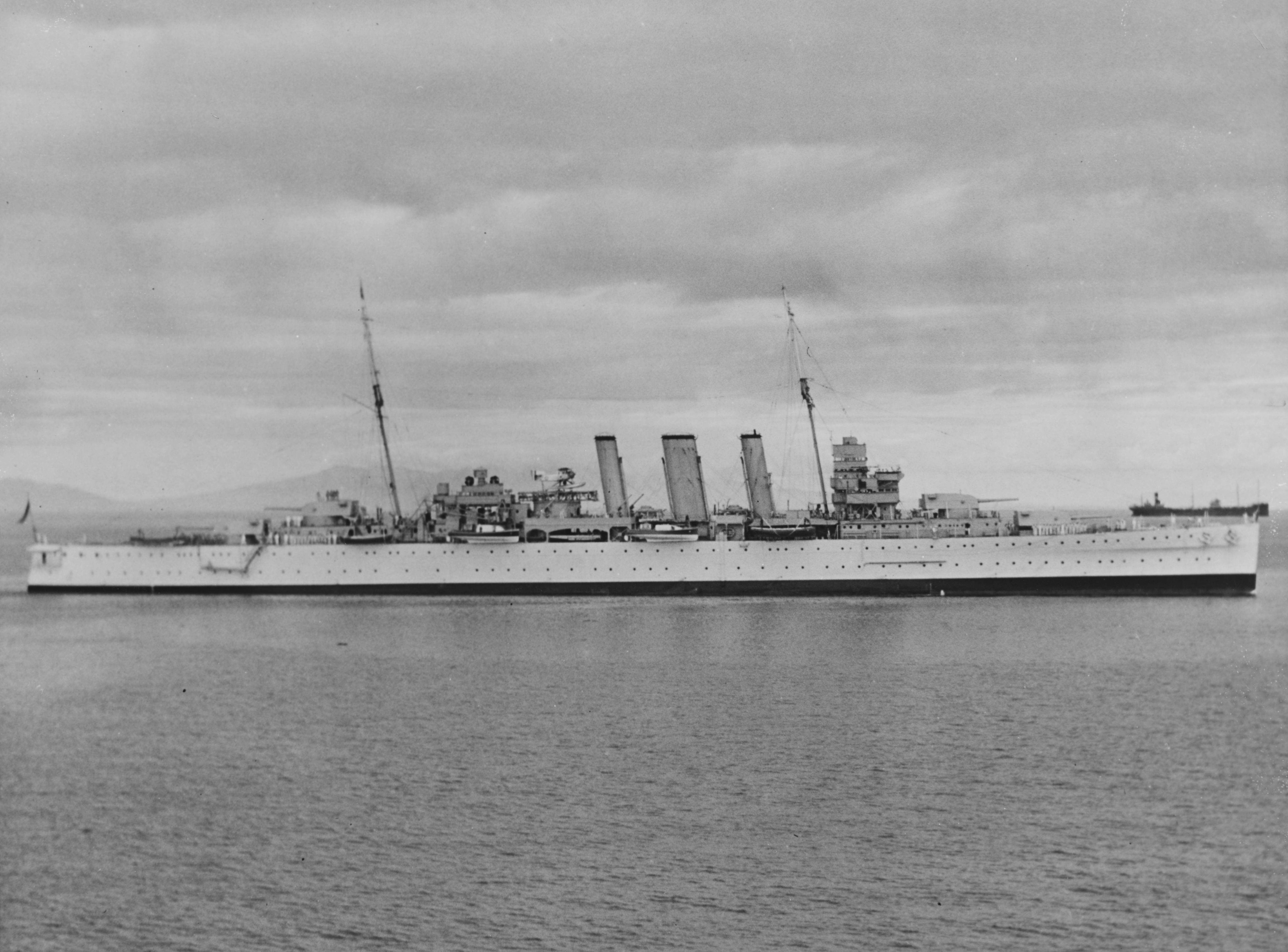 The Royal Navy heavy cruiser HMS Kent (54) at anchor, circa in 1930.